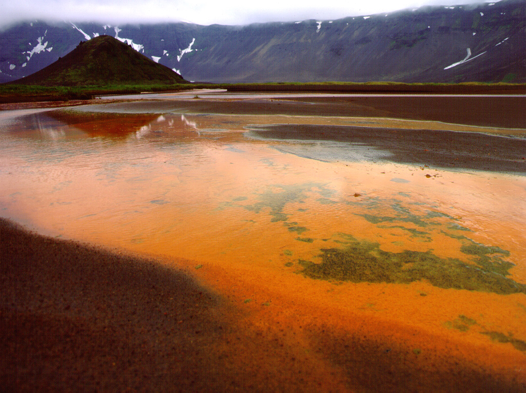 Surprise Lake in the Mount Aniakchak caldera in Alaska.